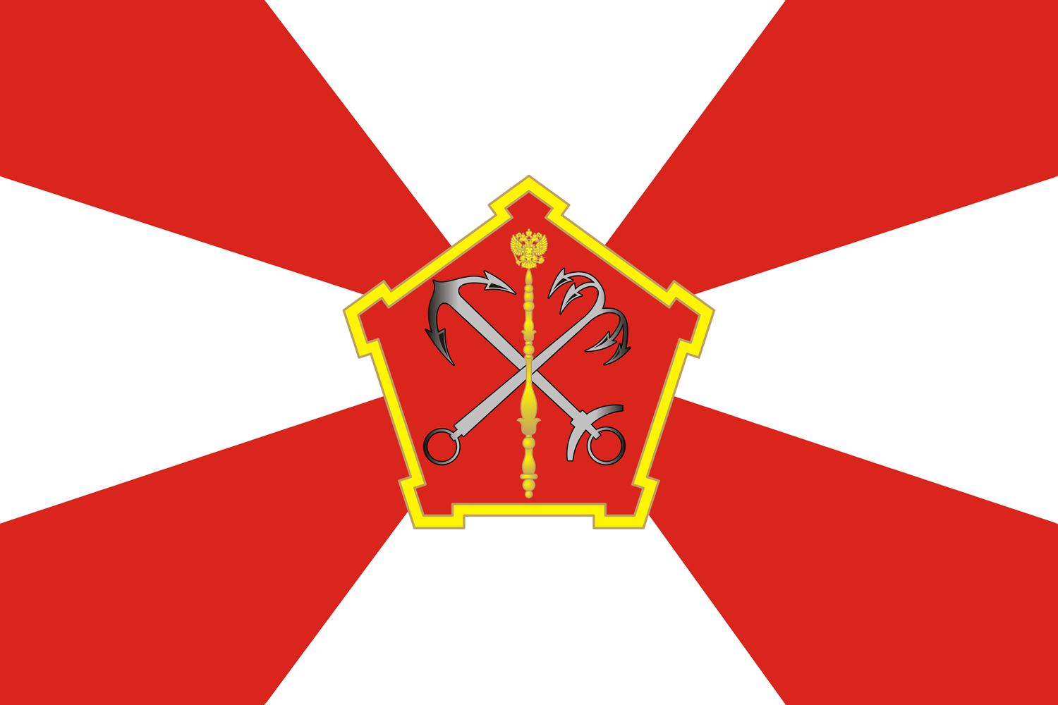 Flag of Western Military District, Russia